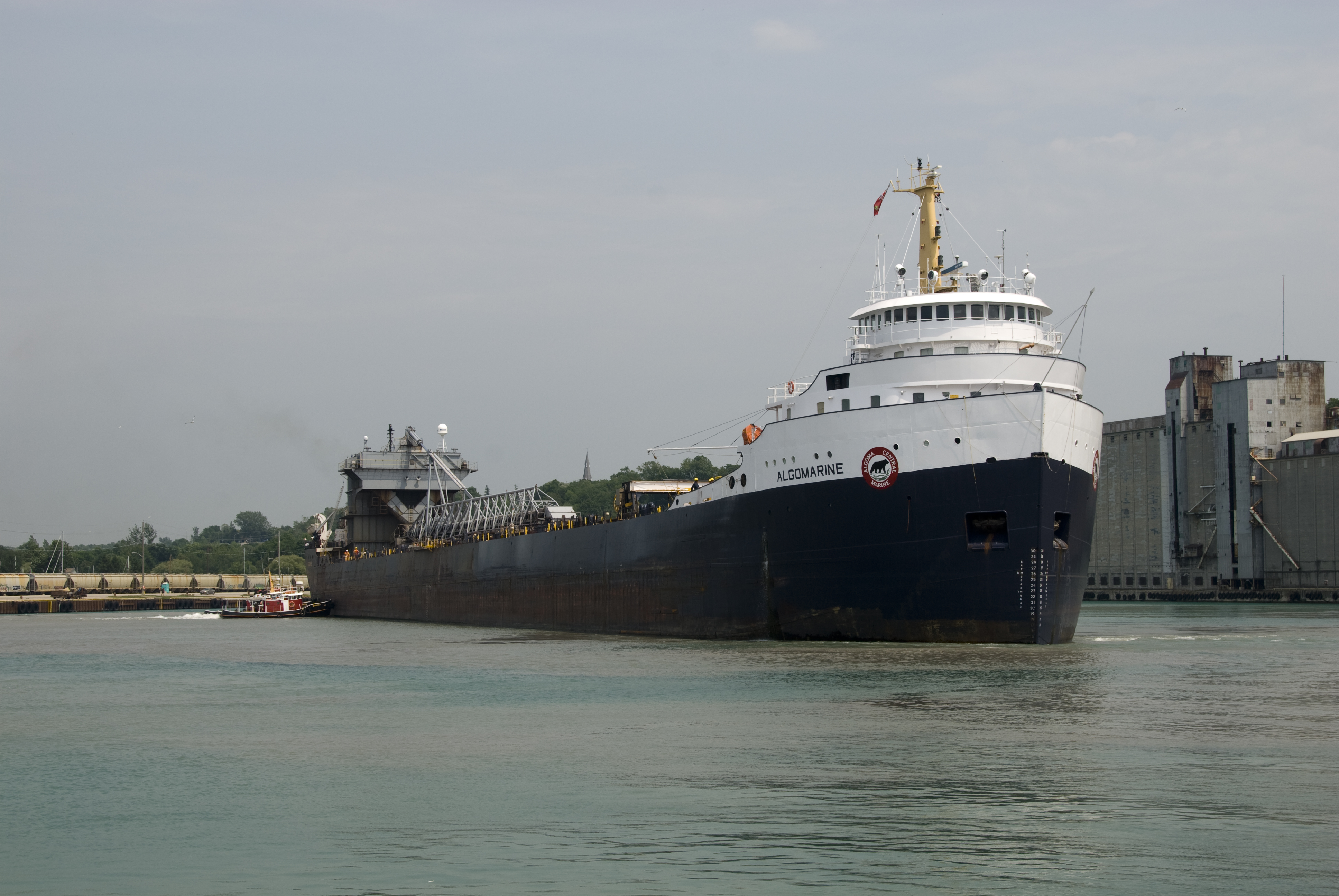 Algomarine, a laker operated by Algoma Central, entering port at Goderich